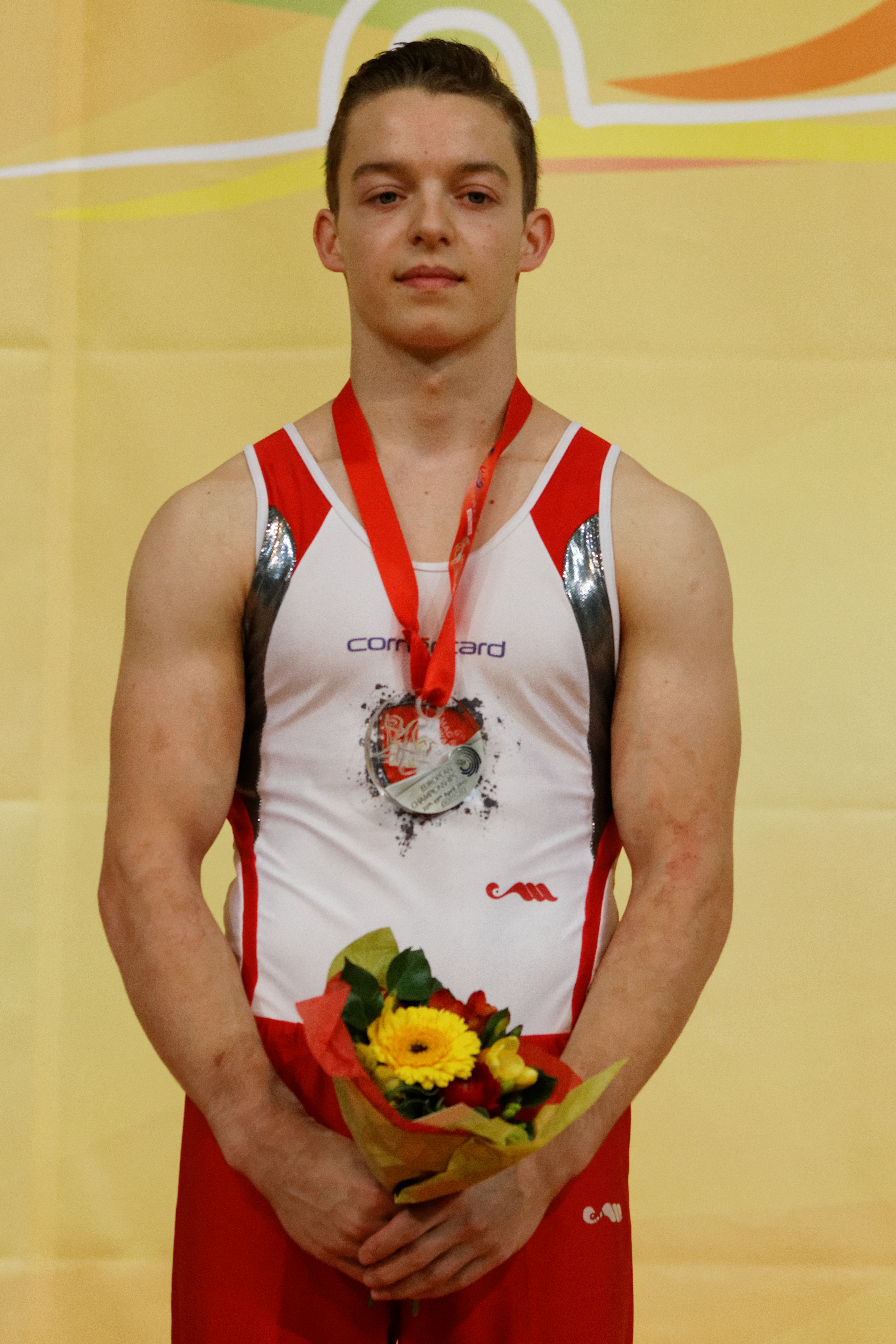 2015 European Artistic Gymnastics Championships.